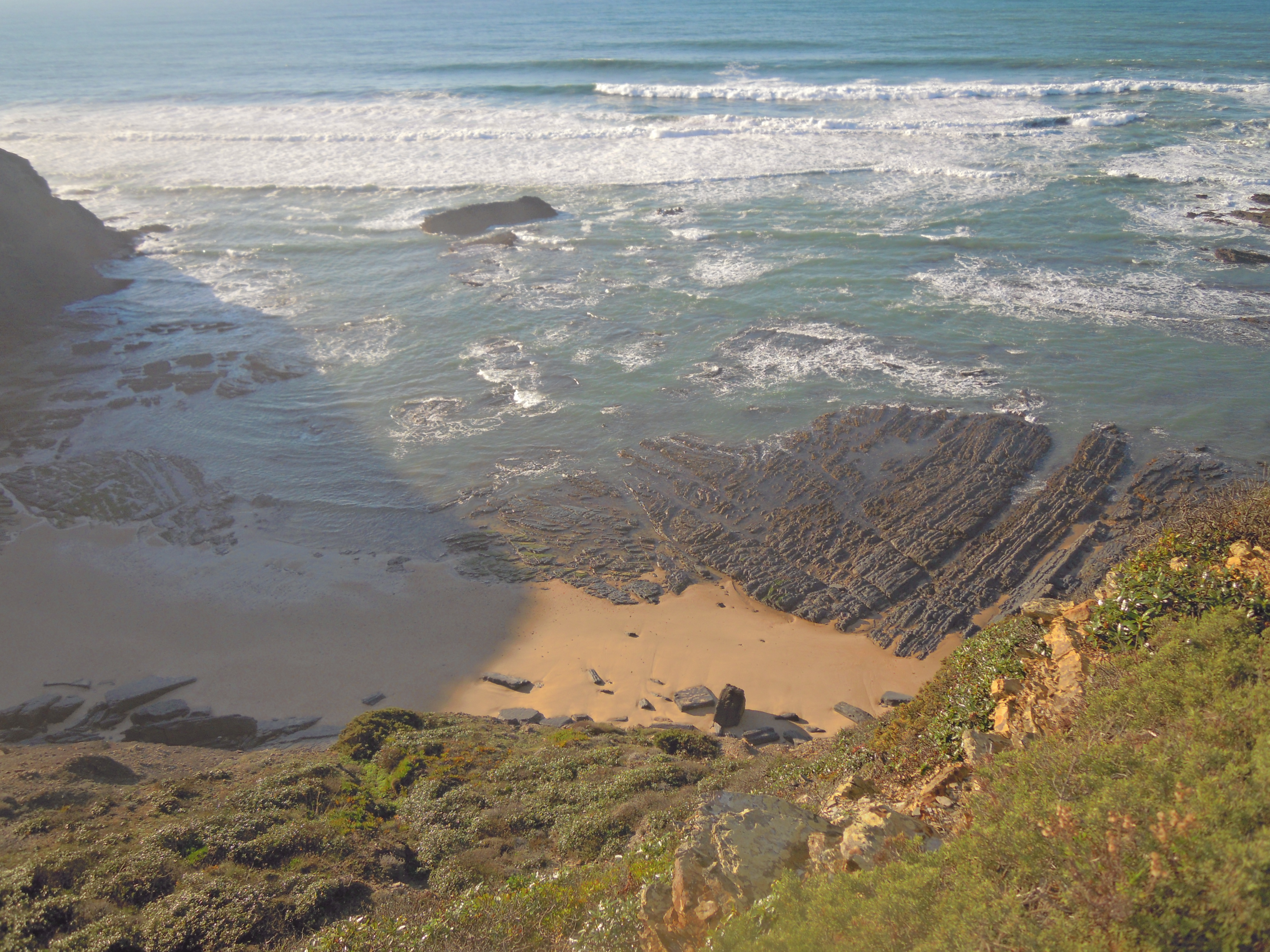 Photograph of of the Praia da Baía dos Tiros , in the municipality of Aljezur, Algarve, Portugal